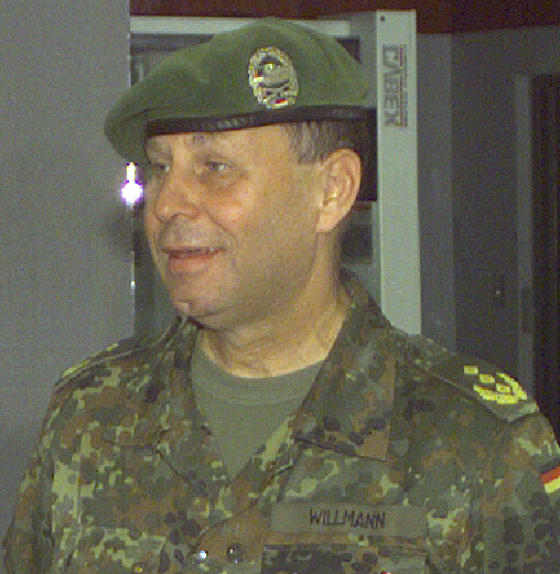 Lieutenant General (OF-8) Helmut Willmann, Chief of Staff, German Army in 1997.